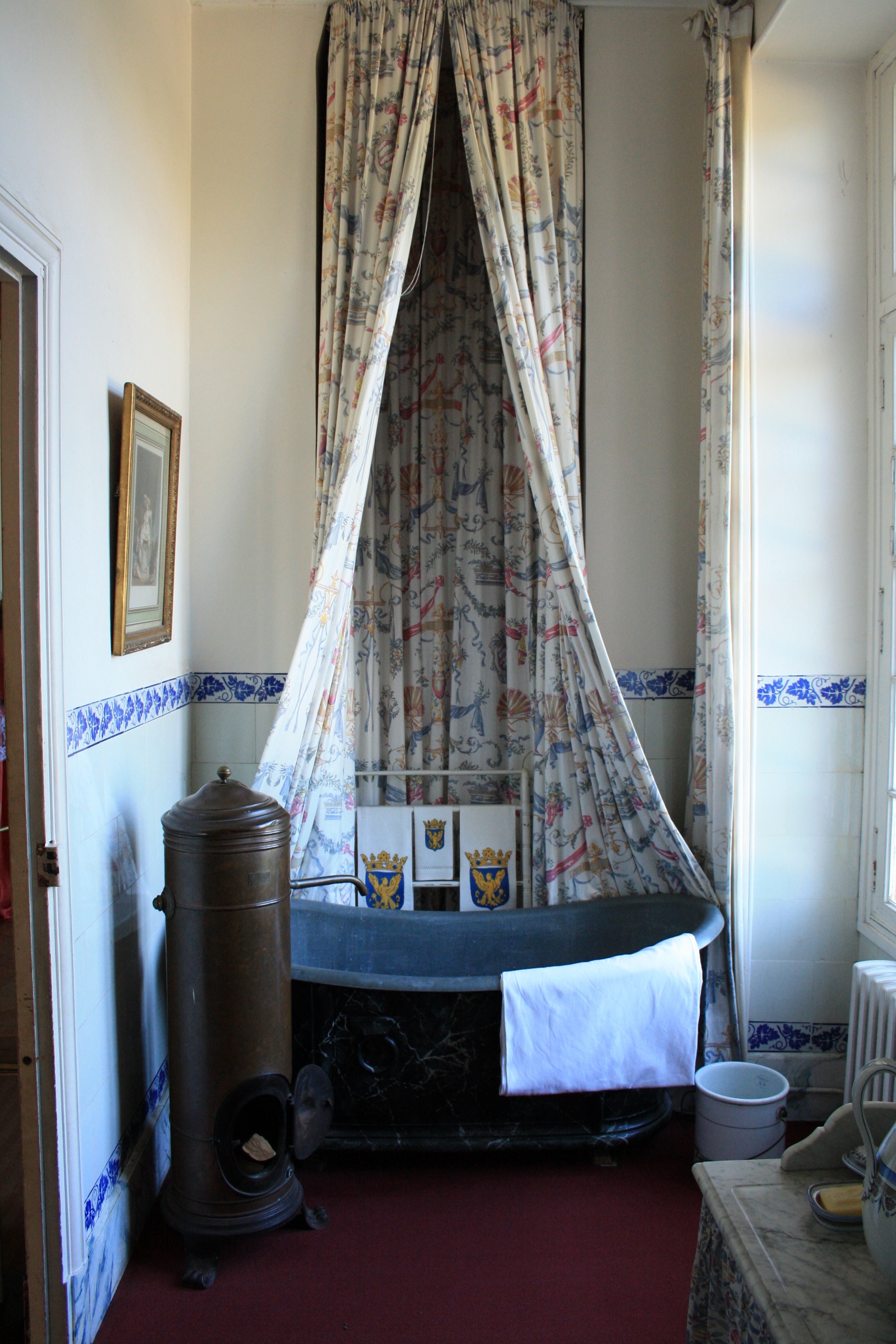 Historical bath tub, shower curtain and boiler, bathroom at Breteuil castle located in the town of Choisel, France